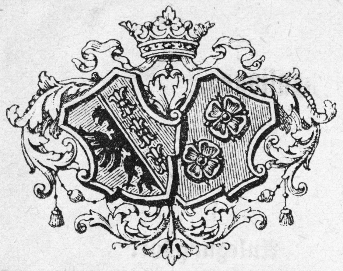 Decorative coat of arms of Bielsko and Biala from 1935